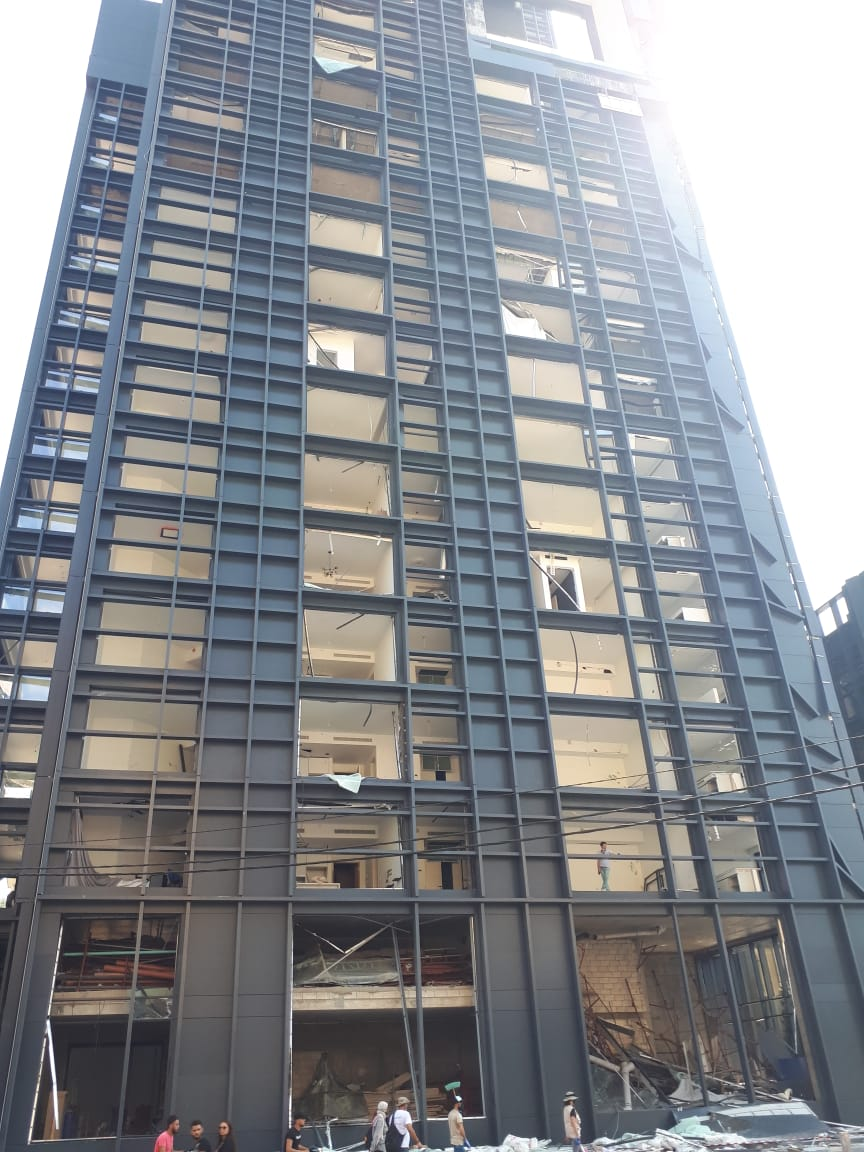 Aftermath of the 2020 Beirut explosions